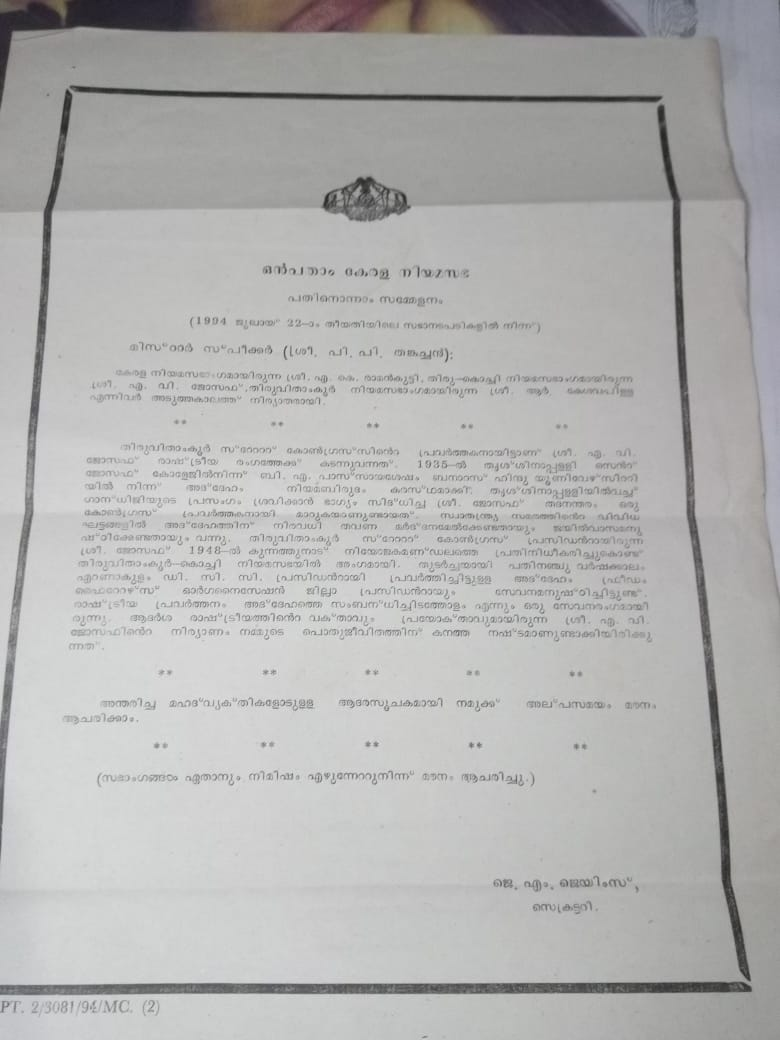 letter from Kerala government on death of Shri AV Joseph